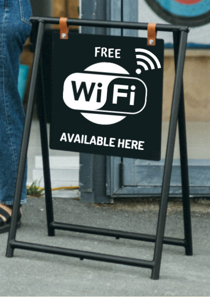 Wifi logo on a sidewalk Sign